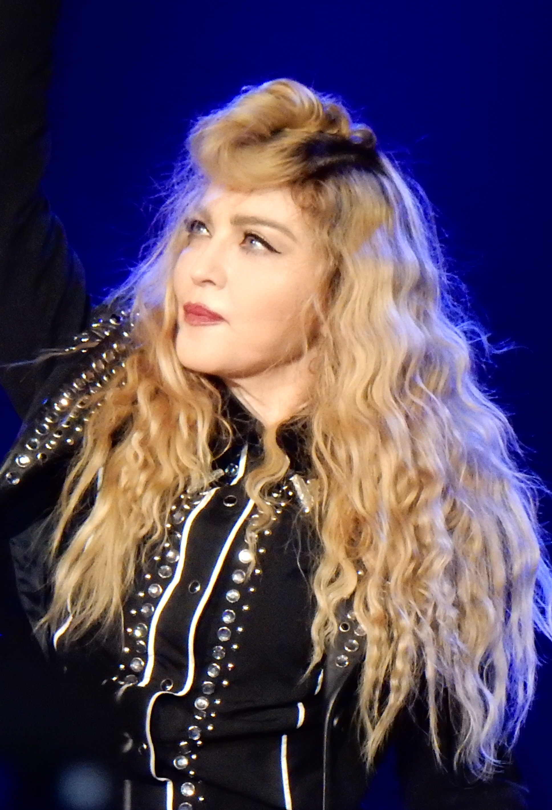 Madonna - Rebel Heart Tour 2015 - Paris 2